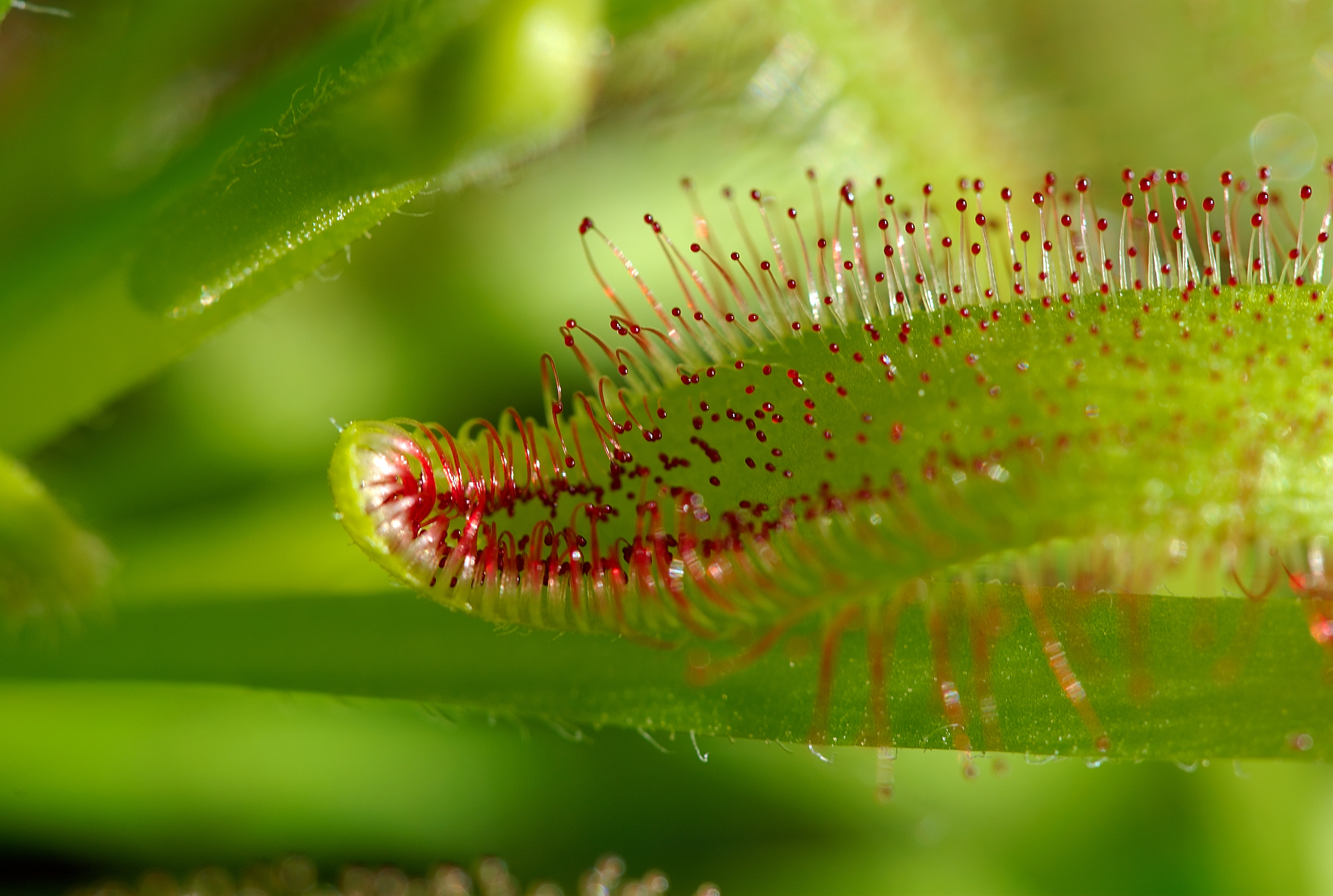 Drosera capensis.